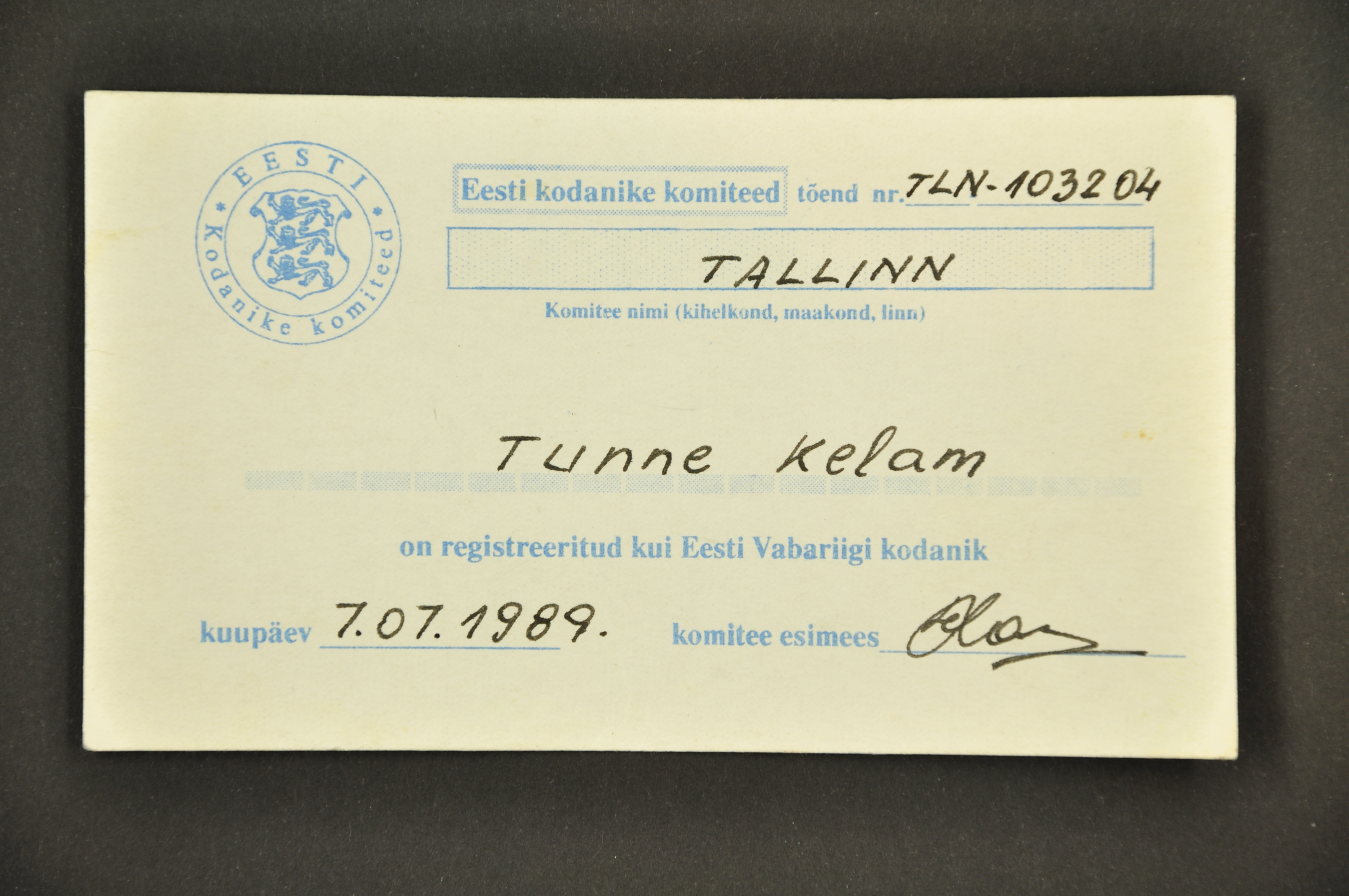 This type of registration card issued by the Estonian Citizens' Committee in 1989 as a recognition of Estonian citizenship. The cards were issued as a result of a citizen initiative and this functioned in a way as a "referendum" for independence of Estonia from the Soviet Union. By 1990 these cards were issued for as many as 790,000 Estonians. Digitized during the Europeana 1989 Collection days in Warsaw, Poland. Brought by Tunne Kelam.